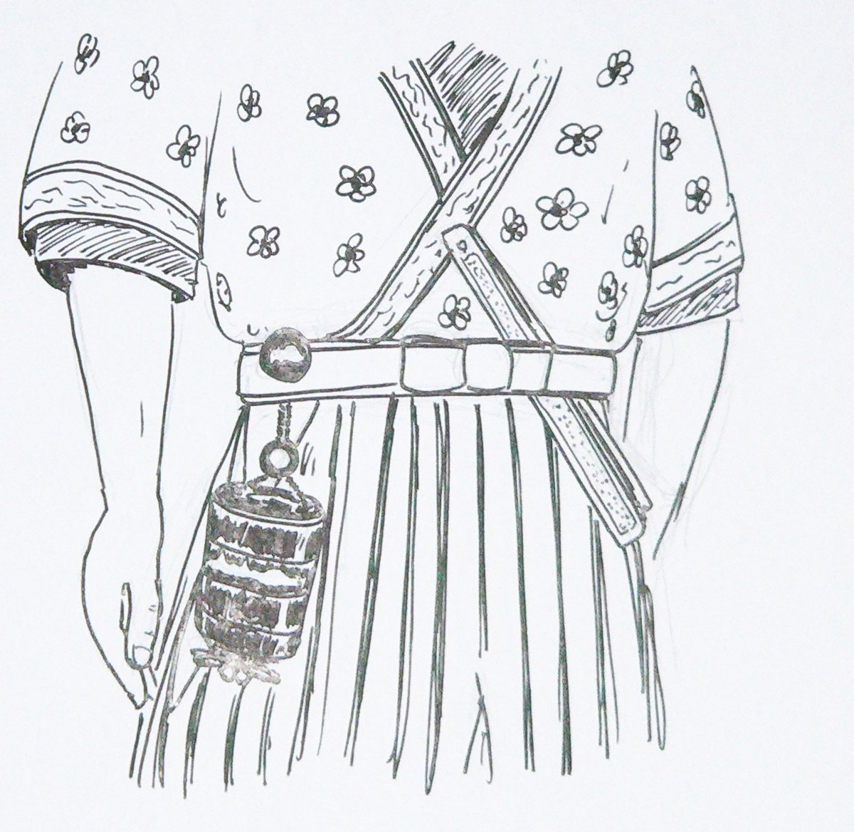 drawing of a netsuke blocking a medicine box in a obi